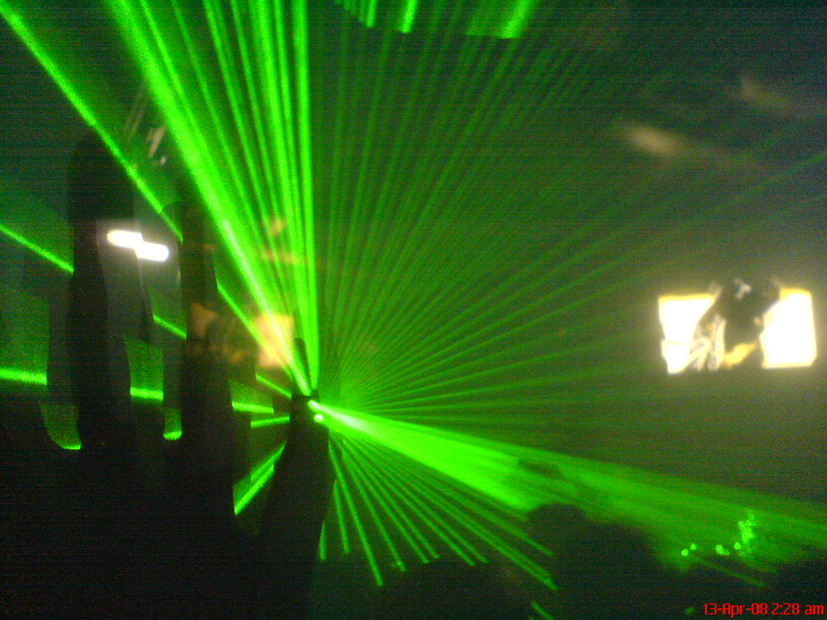 Ministry of Sound Club